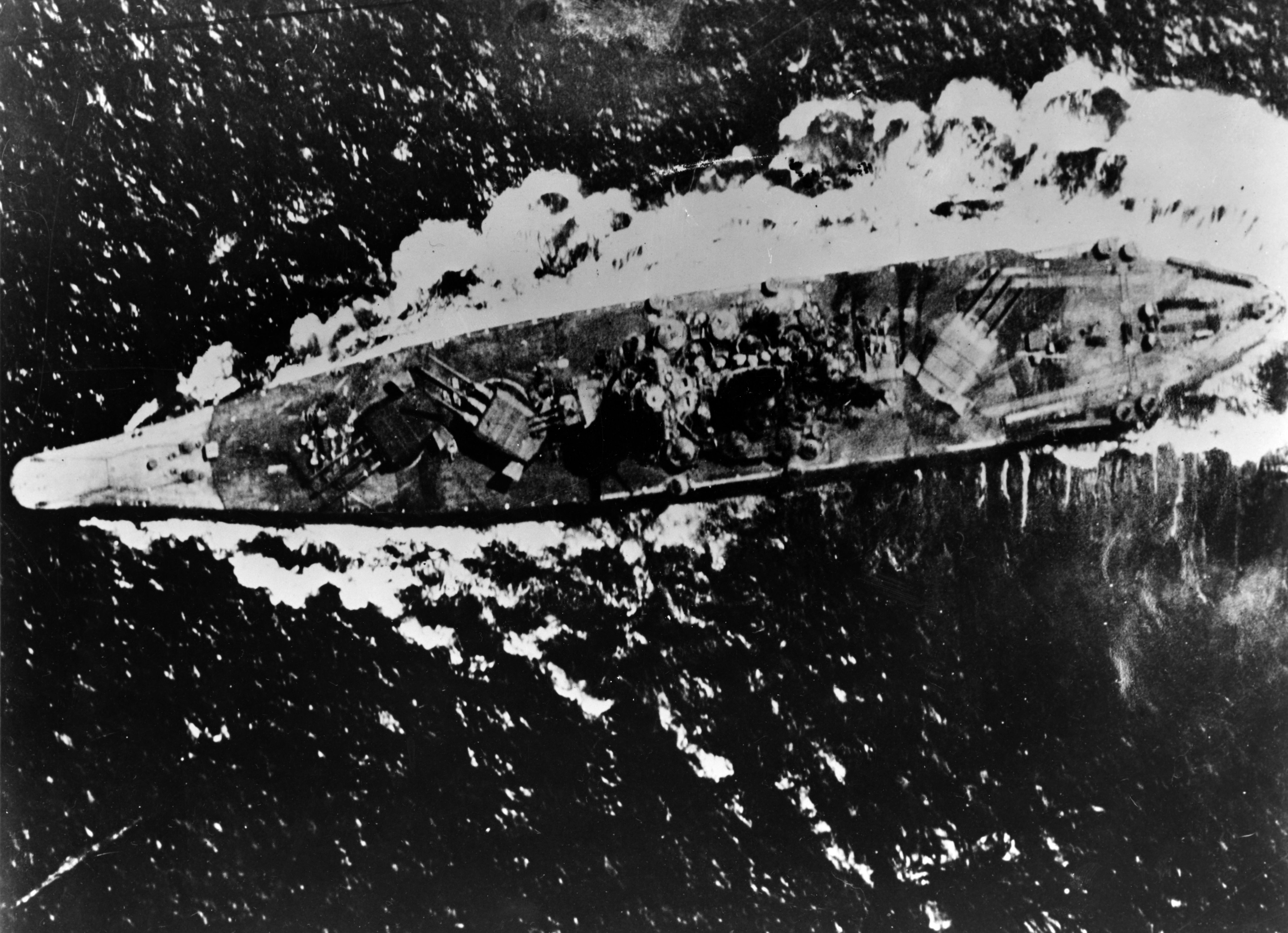 The Japanese battleship Yamato underway during the Battle of the Sibuyan Sea, 24 October 1944.